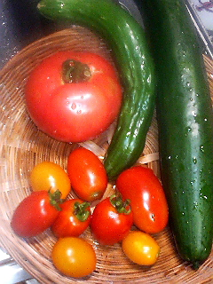 In Yokohama, Japan.